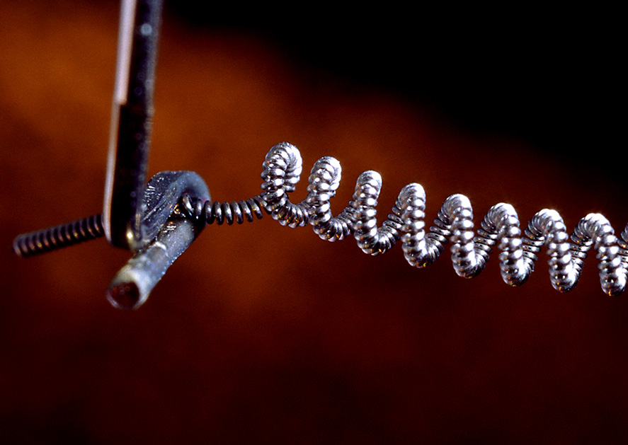 Highly magnified photo of a 200 watt light bulb filament